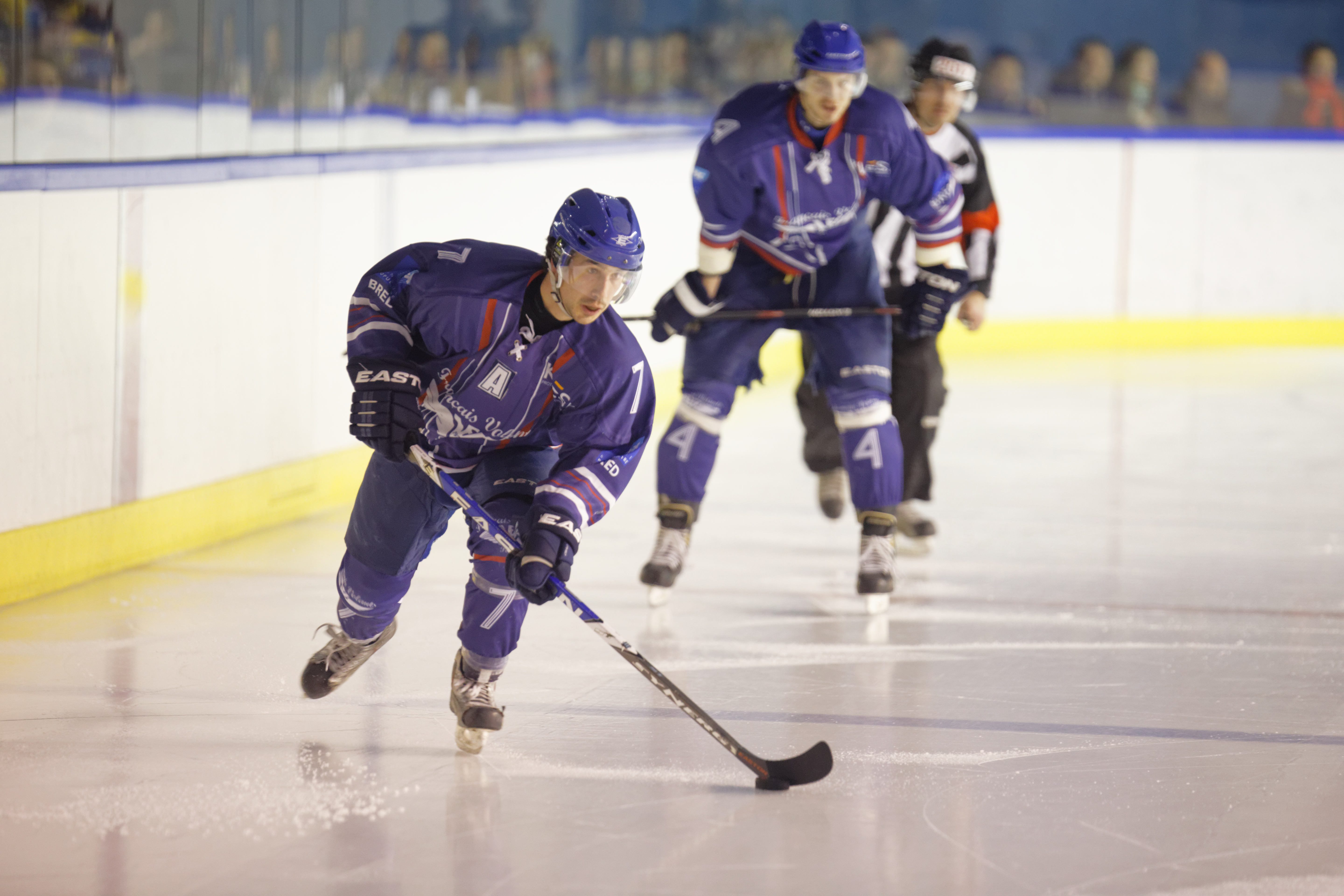 Français volants vs Taureau de feu, March 5th, 2016.